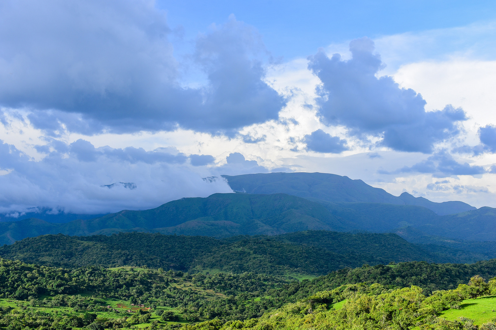 View of Chappal Wadi, highest point in sub-saharan West Africa. It is located on the Mambilla plateau, along the Nigeria-Cameroun border, Taraba state, Nigeria